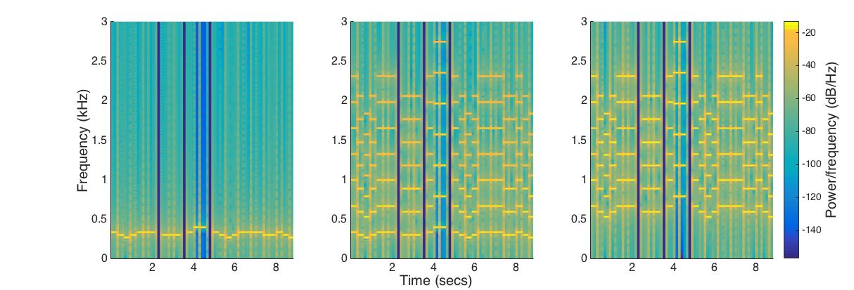 see audispectrogram (1)